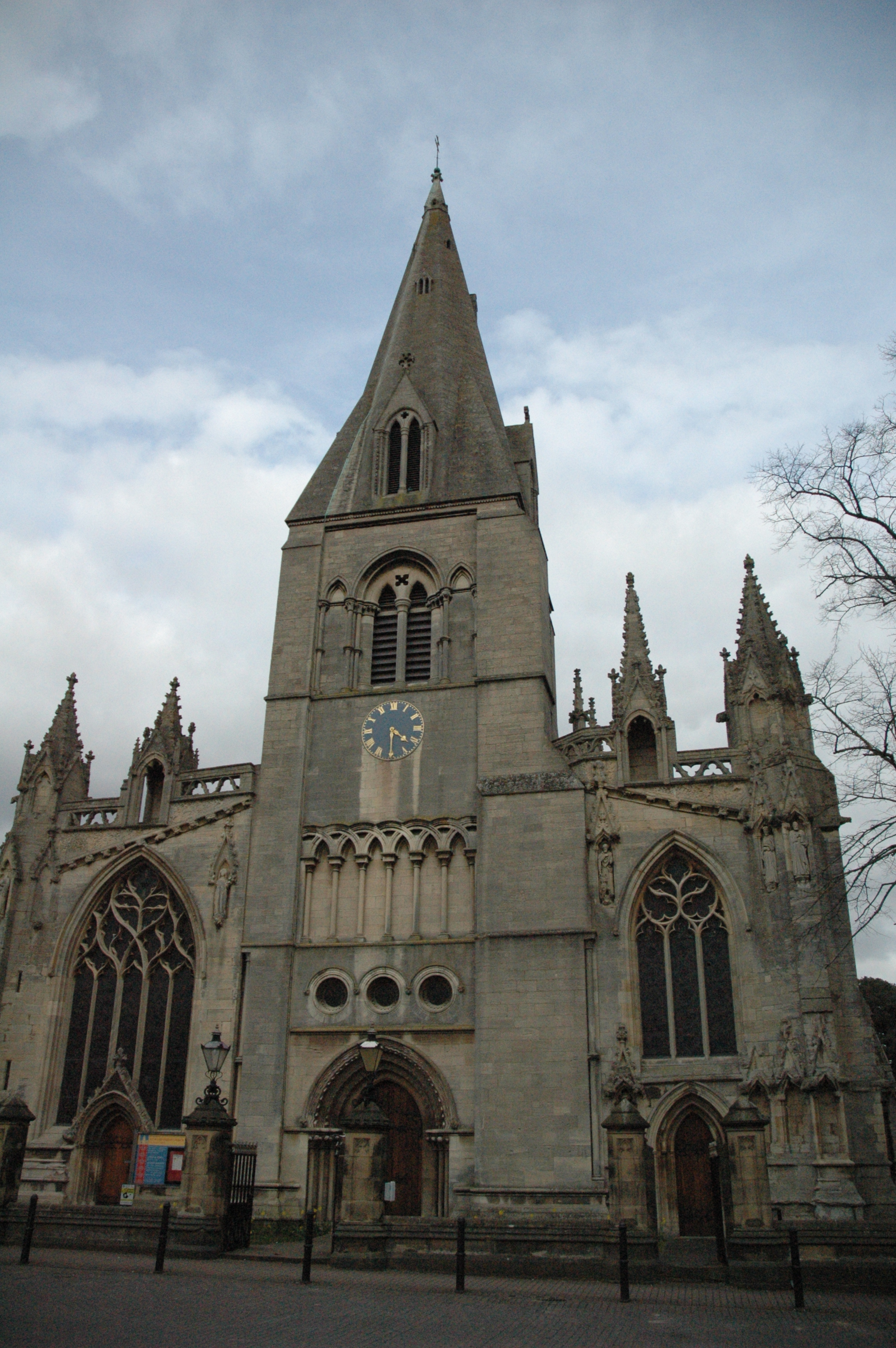 St Denys' Church, Sleaford